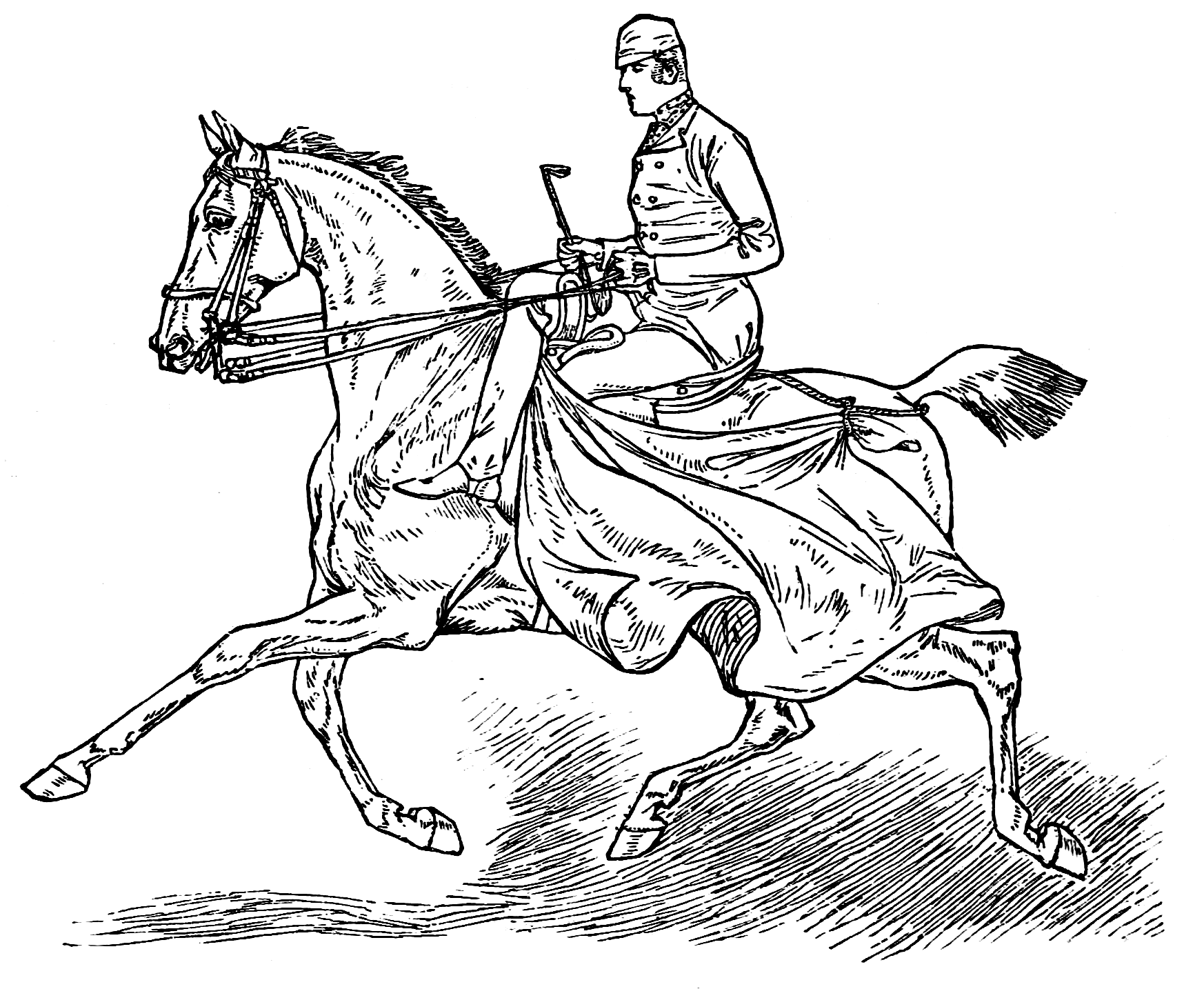 Image from book Horsemanship for Women by Theodore Hoe Mead